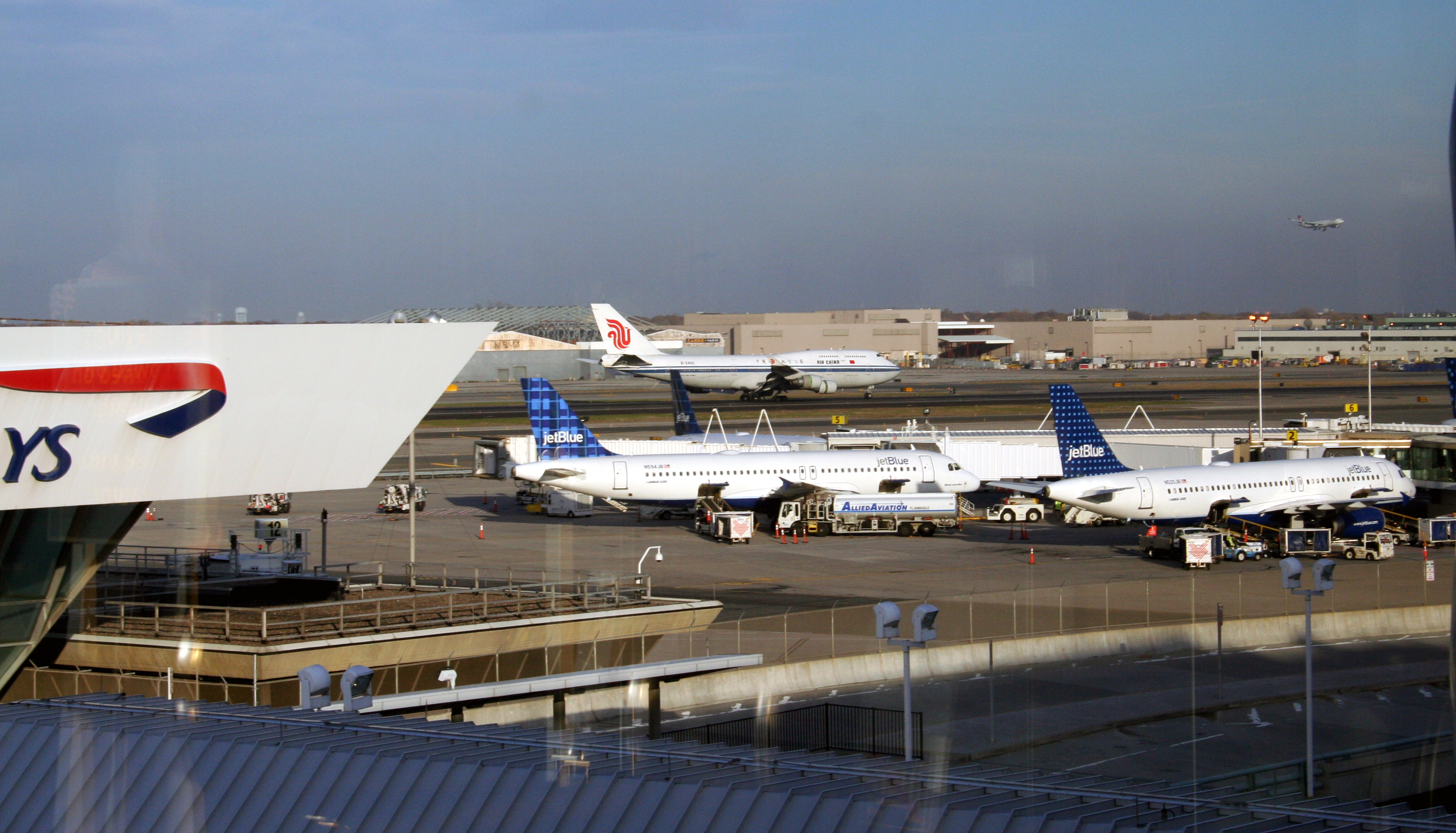 The Terminals 6 and 7 at JFK International, New York.